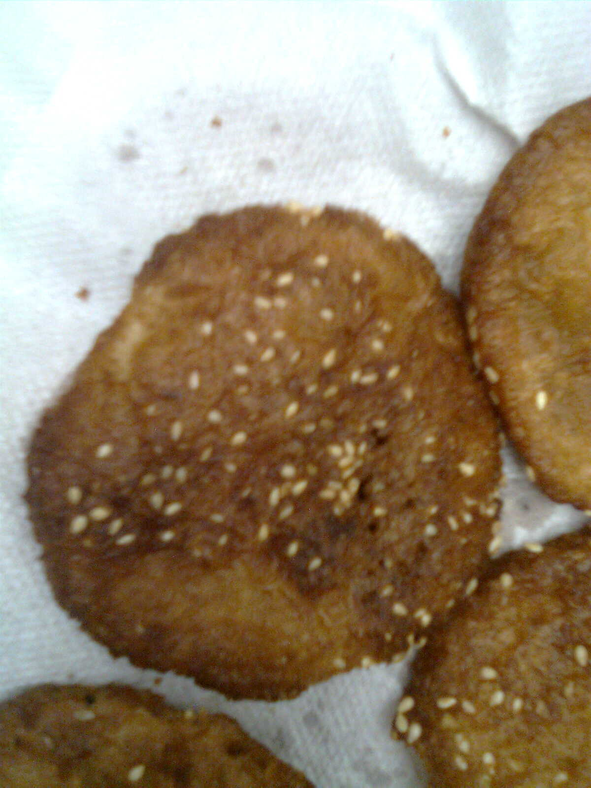 This is freshly prepared Arisa.